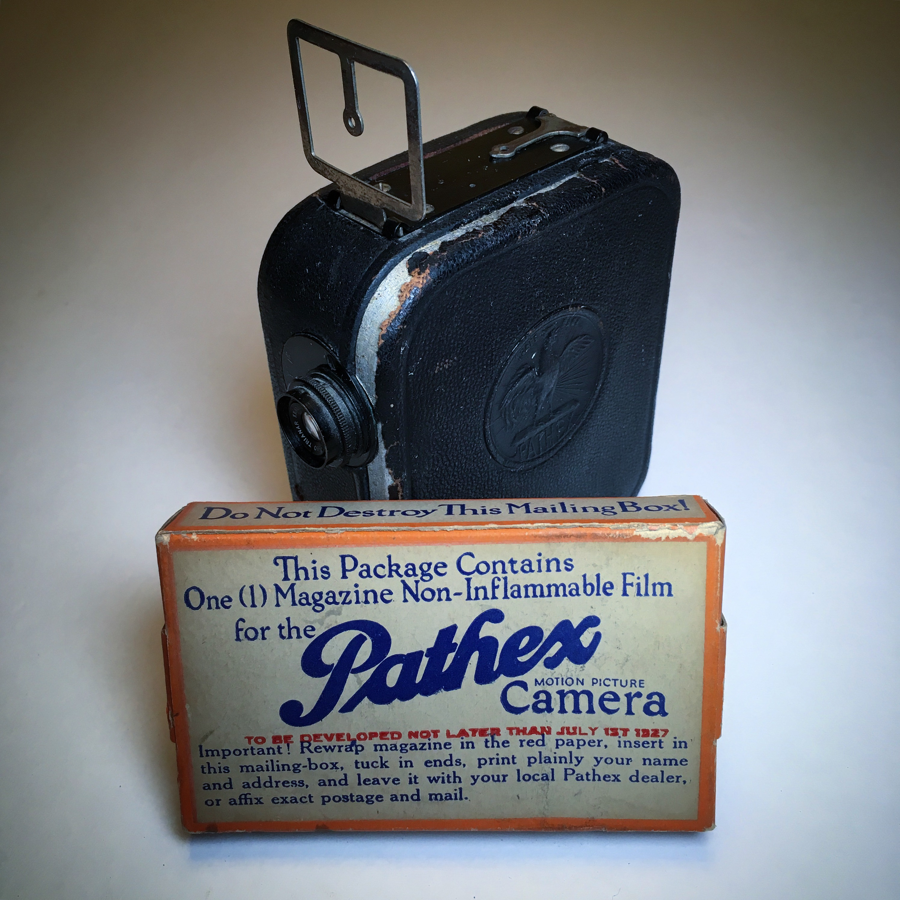 Pathex 9.5mm Movie Film "To Be Developed Not Later Than July 1st 1927"